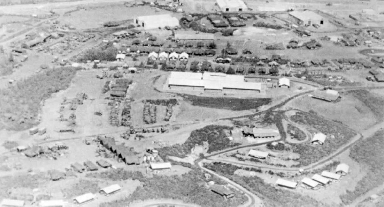 Aerial view of the U.S. Fleet Logistics Support Group Bravo at Chu Lai, South Vietnam. It was part of the III MAF Force Logistic Command and provided centralized control of supplies, construction and administrative support at Chu Lai.